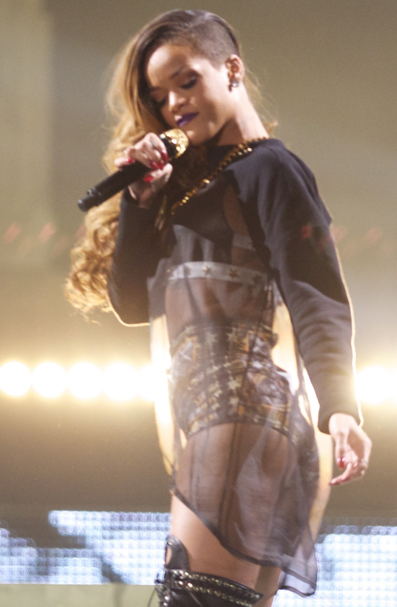 Rihanna performing Diamonds World Tour at the Xcel Energy Center, 24 March 2013.